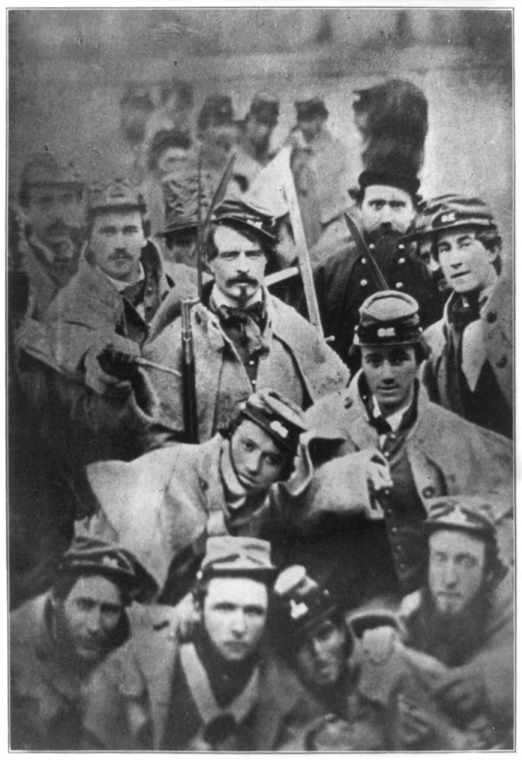 Richmond Grays on guard at John Brown's hanging, which became Company A, 1st Virginia Volunteers Regiment in 1861, including Robert Alexander Caskie, center with goatee; John Wilkes Booth, left of Caskie's shoulder; and Aylett Reins Woodson, bottom center; also Lieutenant Julian Alluisi of the Virginia Rifles in shako hat at top right. Tentatively identified are Louis F. Bossieux, center right; Cyrus Bossieux, top far left; Charles D. Clark, top right; David Garrick Wilson, bottom right; and William H. Caskie, behind Charles D. Clark. Photograph was previously thought to be of Confederate soldiers during the Civil War (Library of Congress). Title: Digital display record: This record exists solely to make the digital image available. You may be able to find information about the displayed item by looking at other online catalog records retrieved with the Reproduction Number below. If no such record is retrieved, information may be found in Prints & Photographs Division manual indexes. Abstract/medium: 1 photograph : photomechanical print ; image 19 x 14 cm, page 27 x 19 cm.